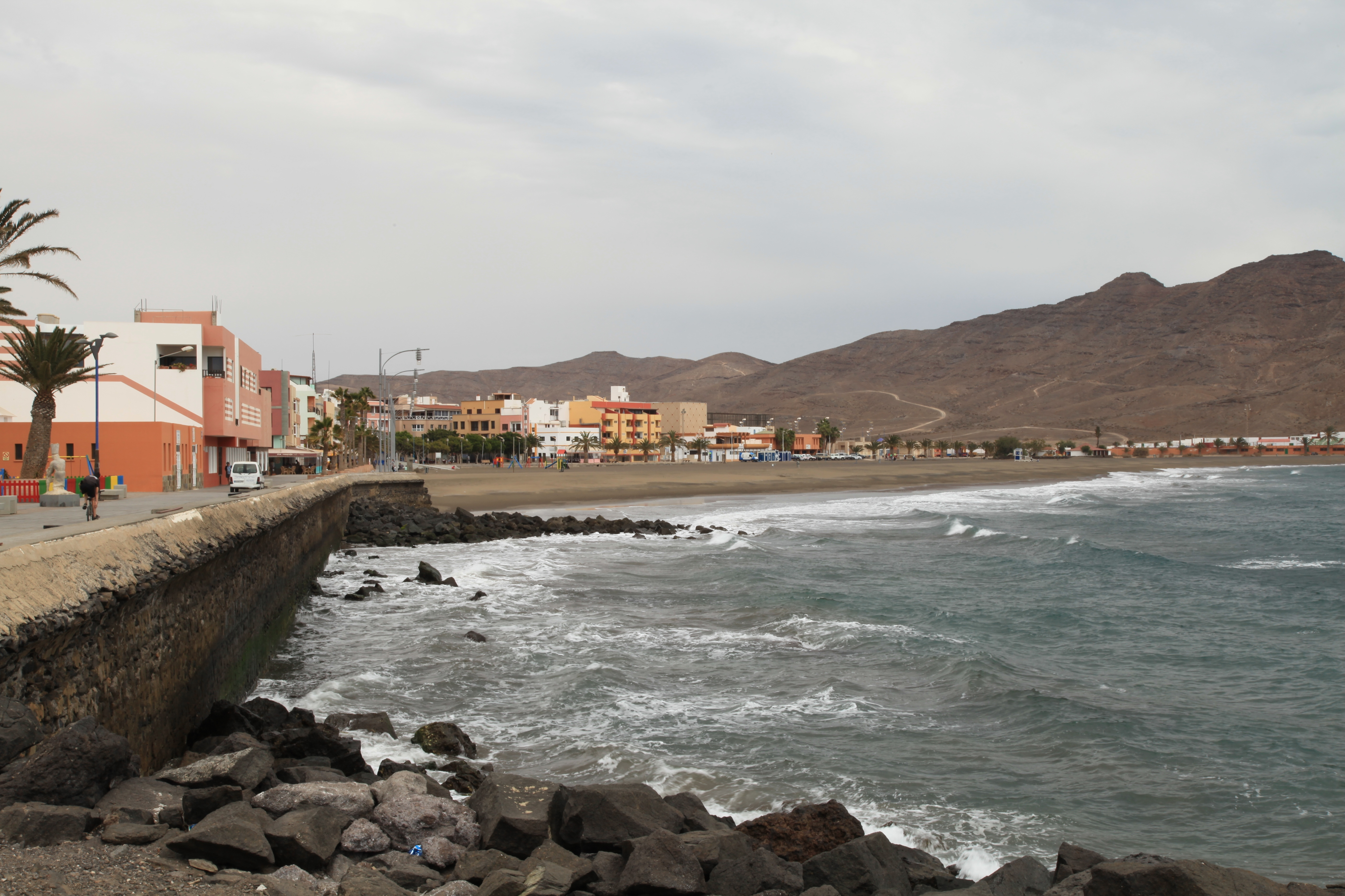 Playa de Gran Tarajal, Avenida Paco Hierro in Gran Tarajal, Tuineje, Fuerteventura, Canary Islands